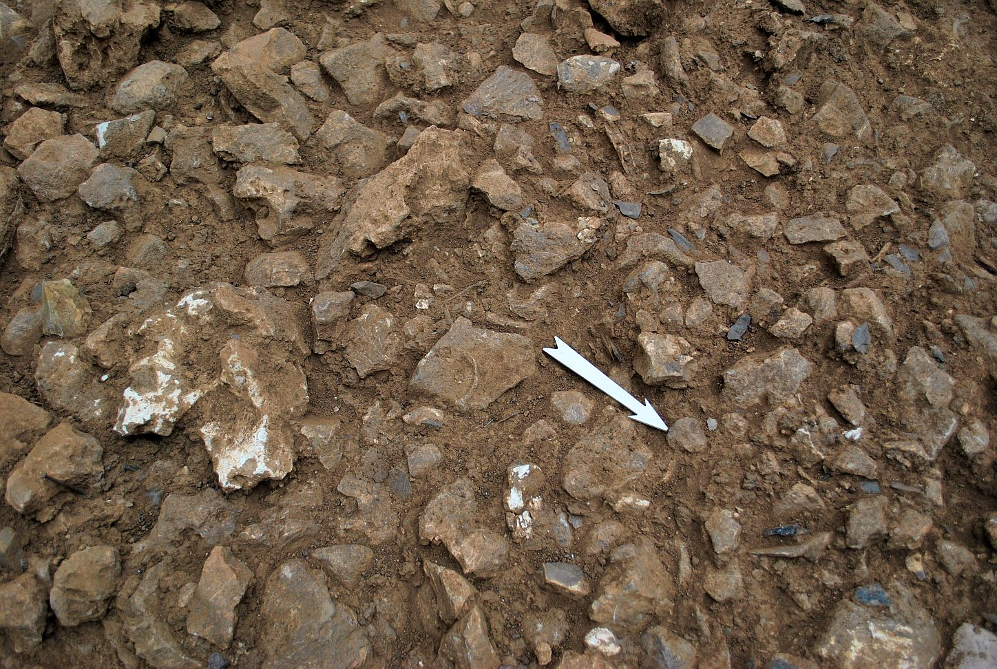 Living floor at the Natufian site of el-Wad Terrace, Mount Carmel, Israel